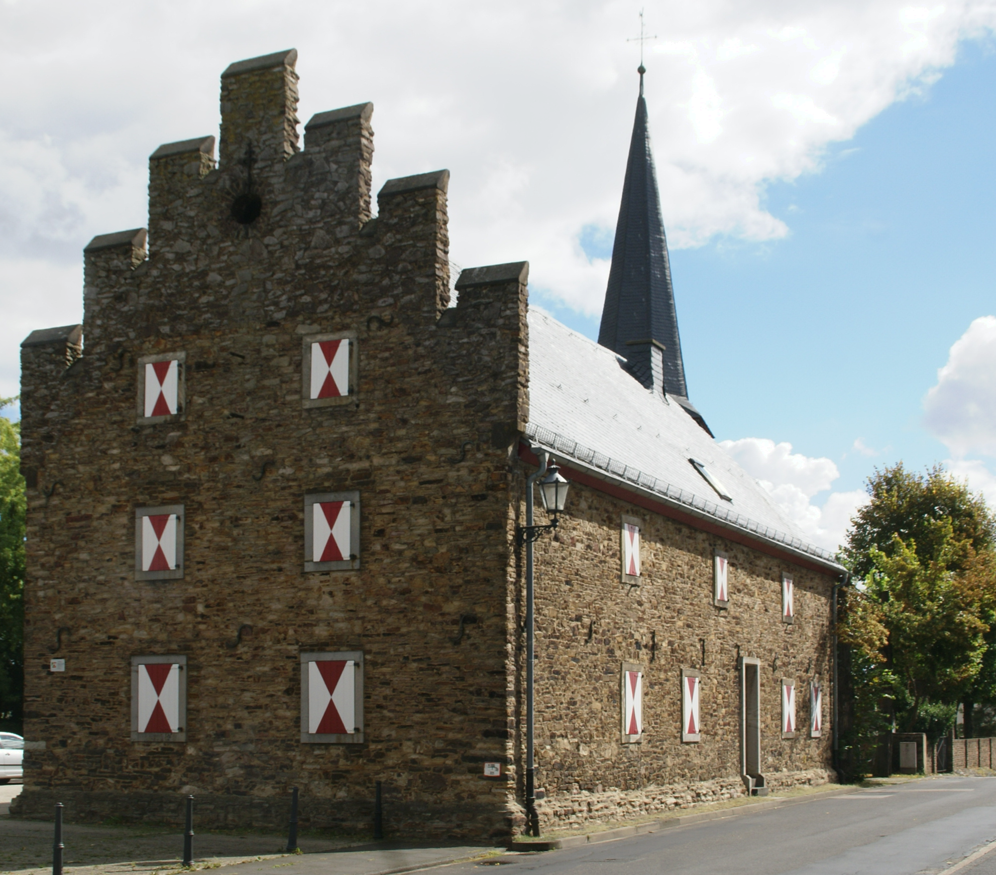 The socalled Zehnthaus in Odendorf, Am Zehnthof 1. View from the street Am Zehnthof